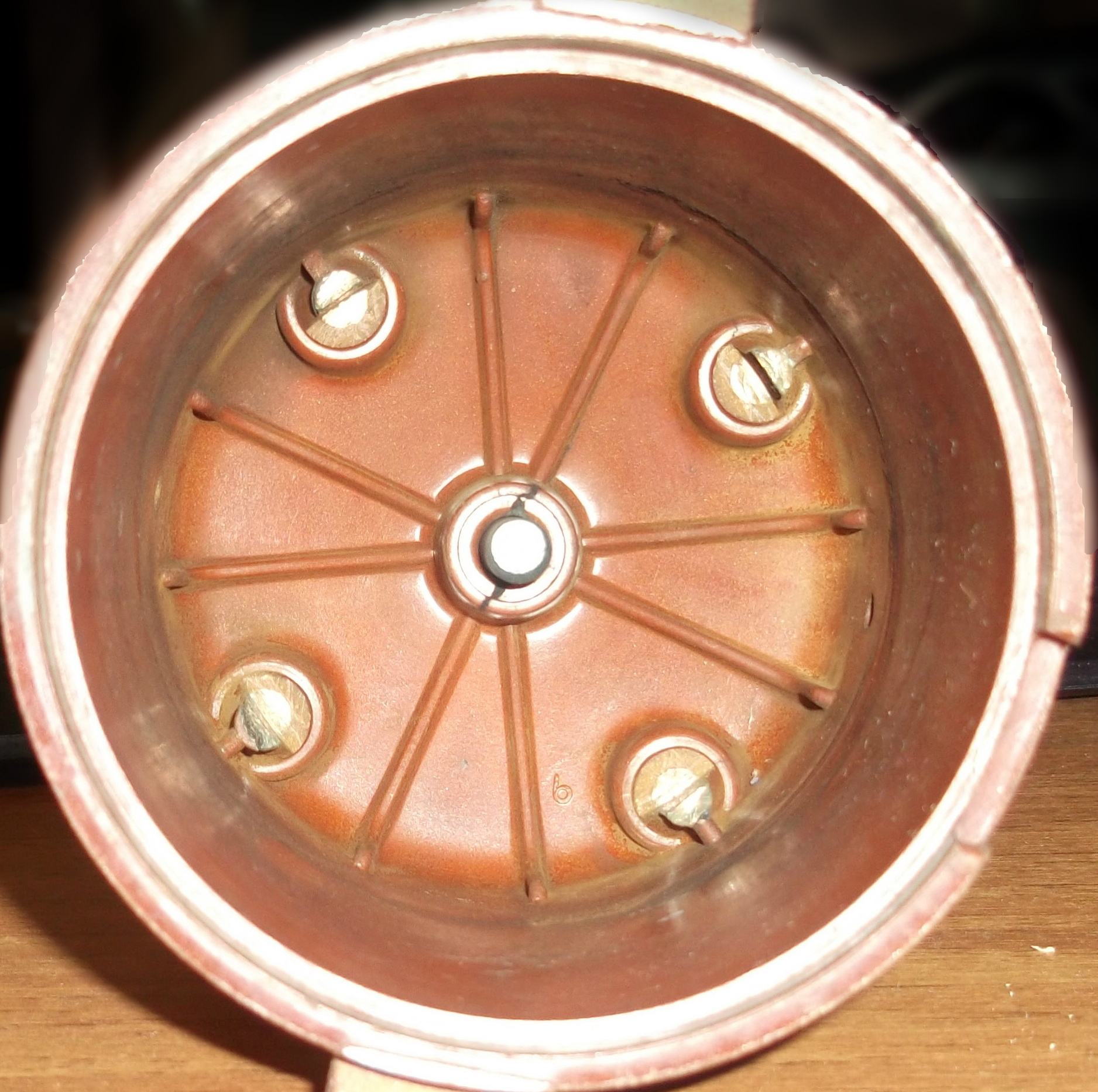 Distributor cap. At the center is a spring loaded carbon button that bears upon the rotor. The number of distribution points (in this case 4) is determined by the number of cylinders in the engine.